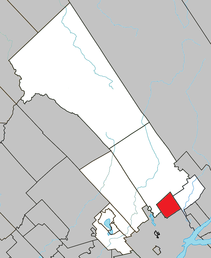 Location of Lac-Beauport, Quebec within La Jacques-Cartier Regional County Municipality.